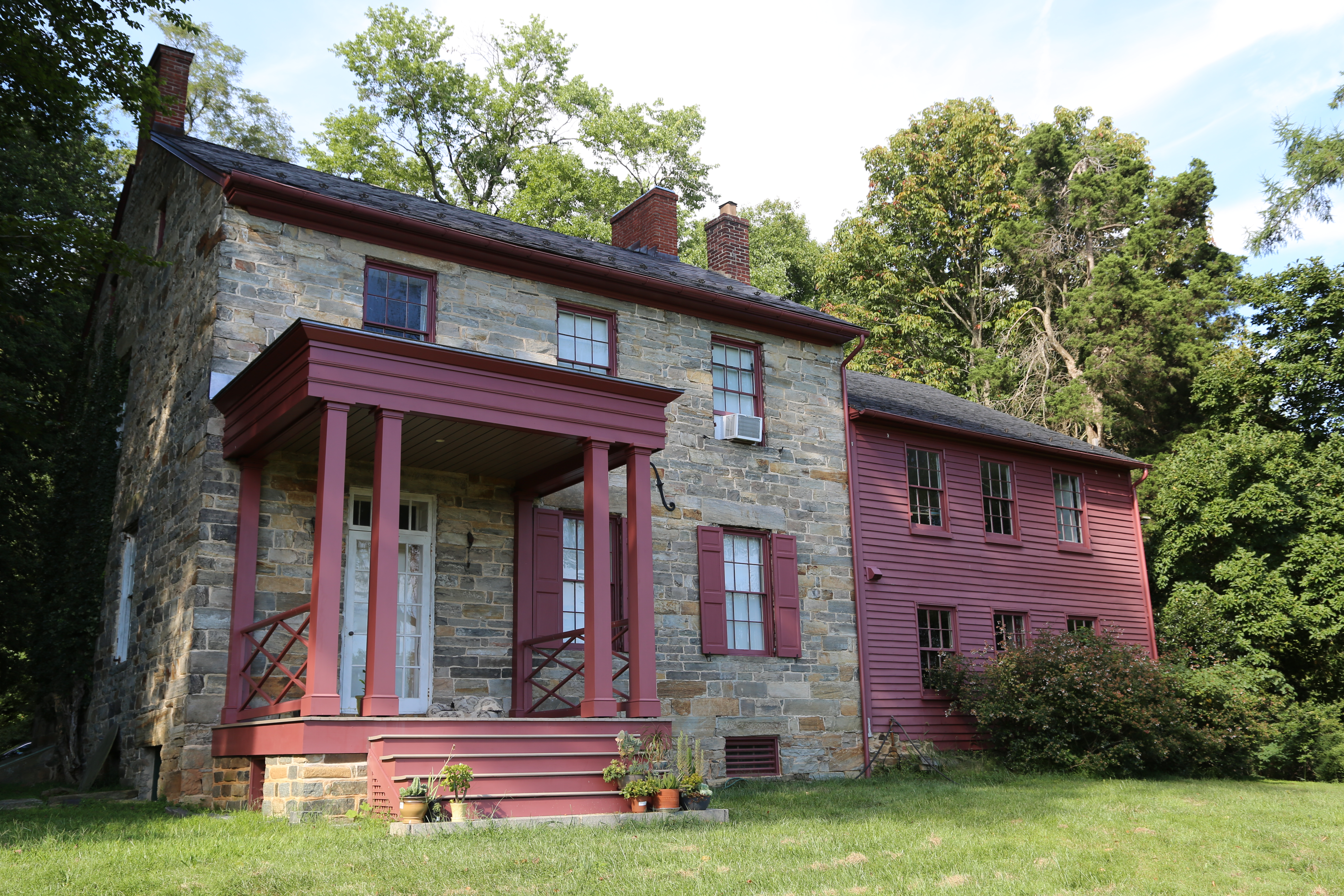 Woodside, Northwest of Abingdon at 400 Singer Rd Abingdon